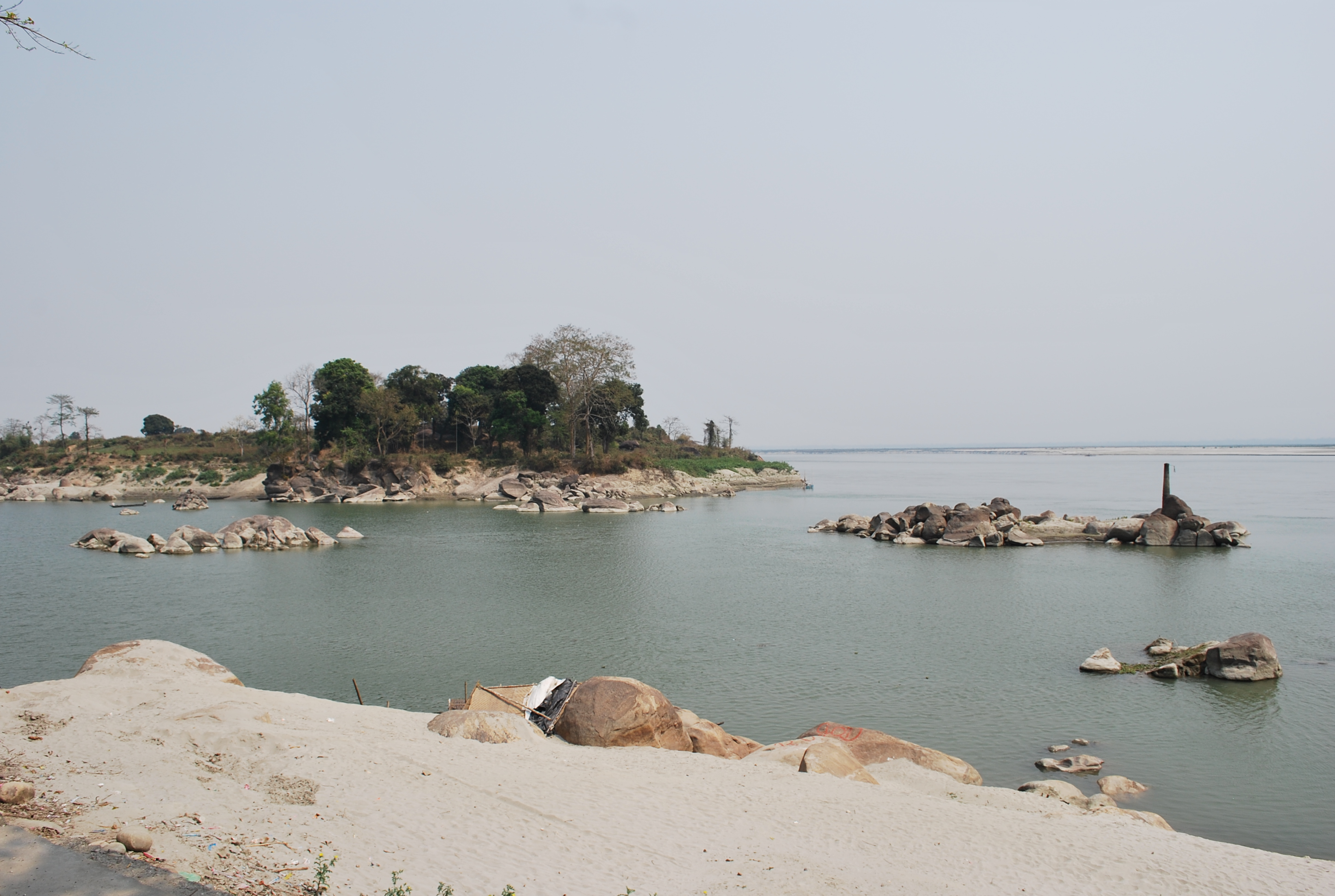 Island Umatumani , Bishwanath, Sointpur অসমীয়া: উমাটুমনি বা উমাবন, ব্ৰহ্মপুত্ৰ নদীৰ বিশ্বনাথ ঘাটৰ বুঢ়ীগাং নদী আৰু ব্ৰহ্মপুত্ৰই ব-ছেৰা সোঁতাৰ সংগম স্থলত অৱস্থিত এটা প্ৰাকৃতিক নদী দ্বীপ। বিশ্বনাথ চাৰিআলি নগৰৰ পৰা দক্ষিনলৈ ৬ কি: মি: দুৰত এই উমাটুমনি বা উমাবন অৱস্থিত।